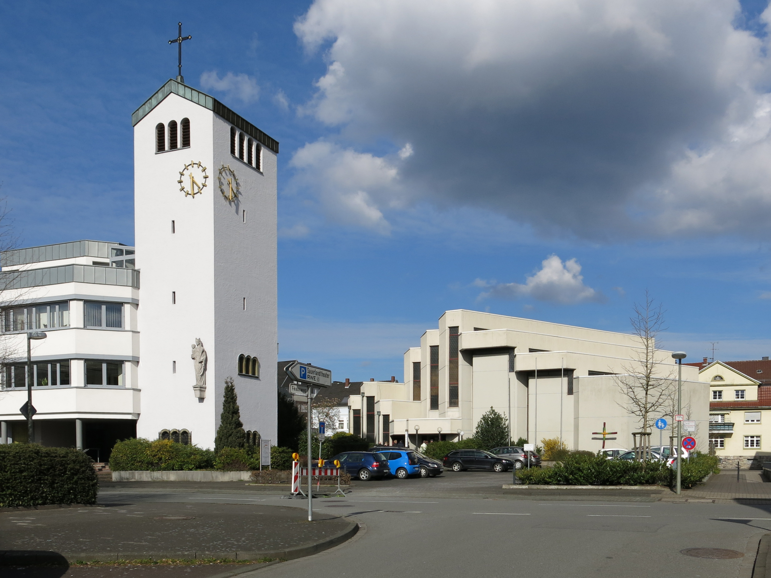 The church of Liebfrauen in Arnsberg